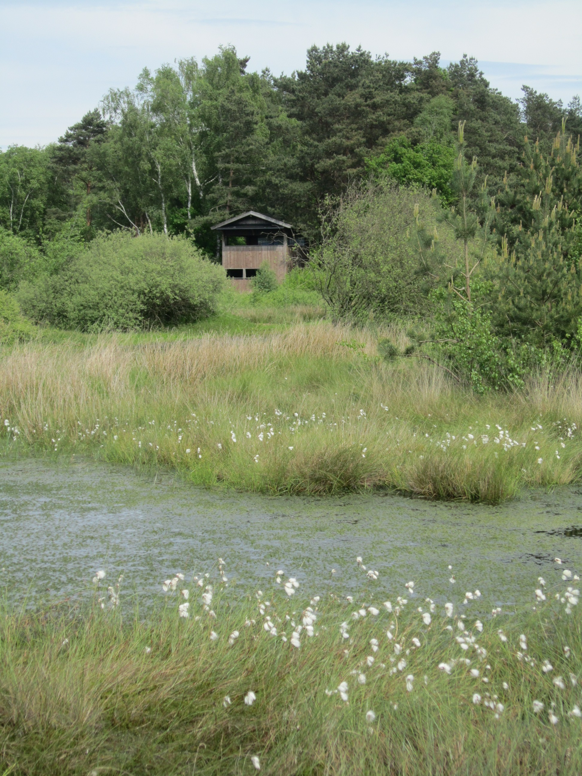 Bog "Neustädter Moor" near Ströhen (Wagenfeld, Landkreis Diepholz, Lower Saxony); the "Small Observation Tower" in the background